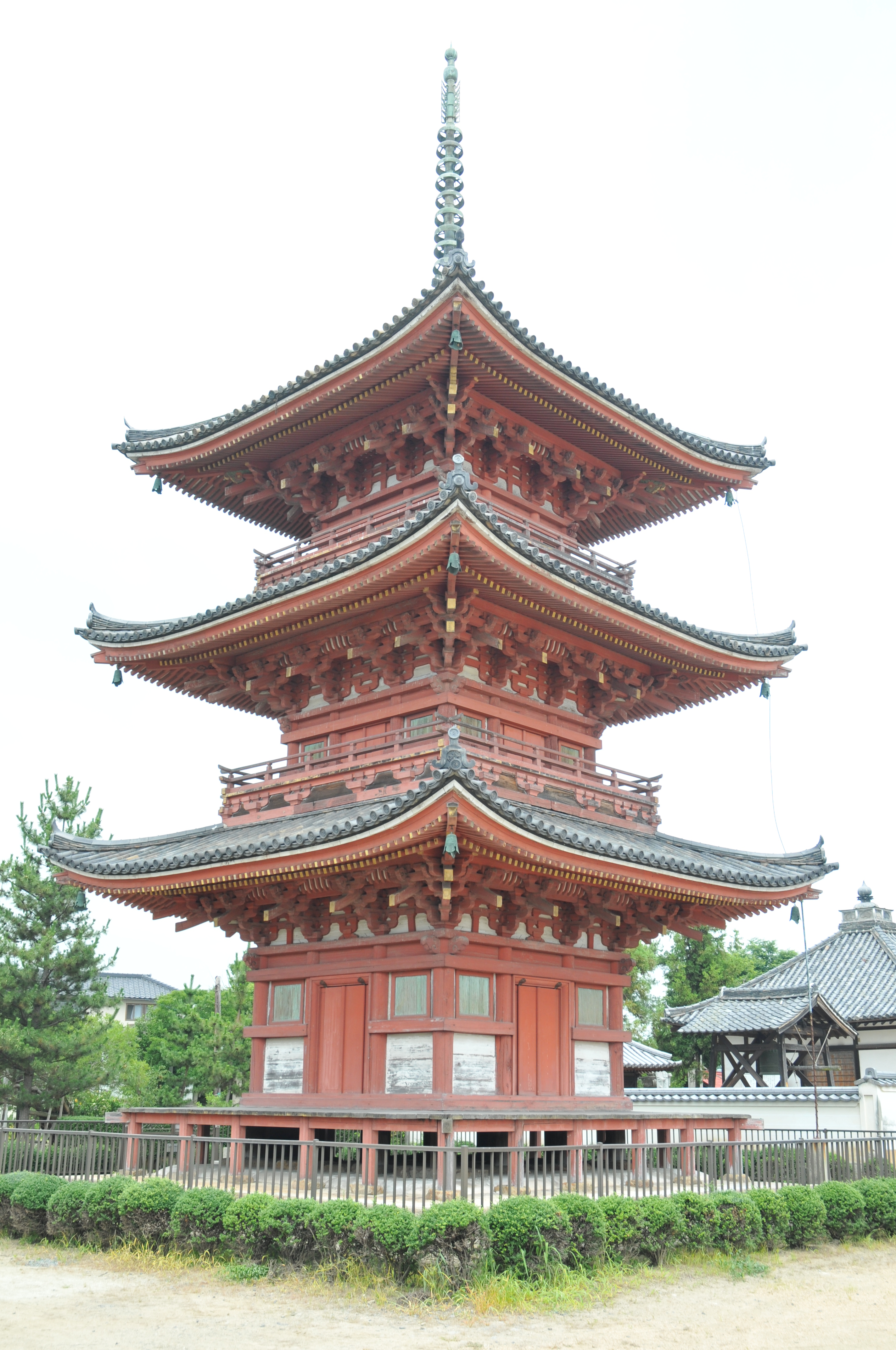 Three-Storied Pagoda (Japan's national important cultural property) Henjō-in temple, Kurashiki, Okayama, Japan